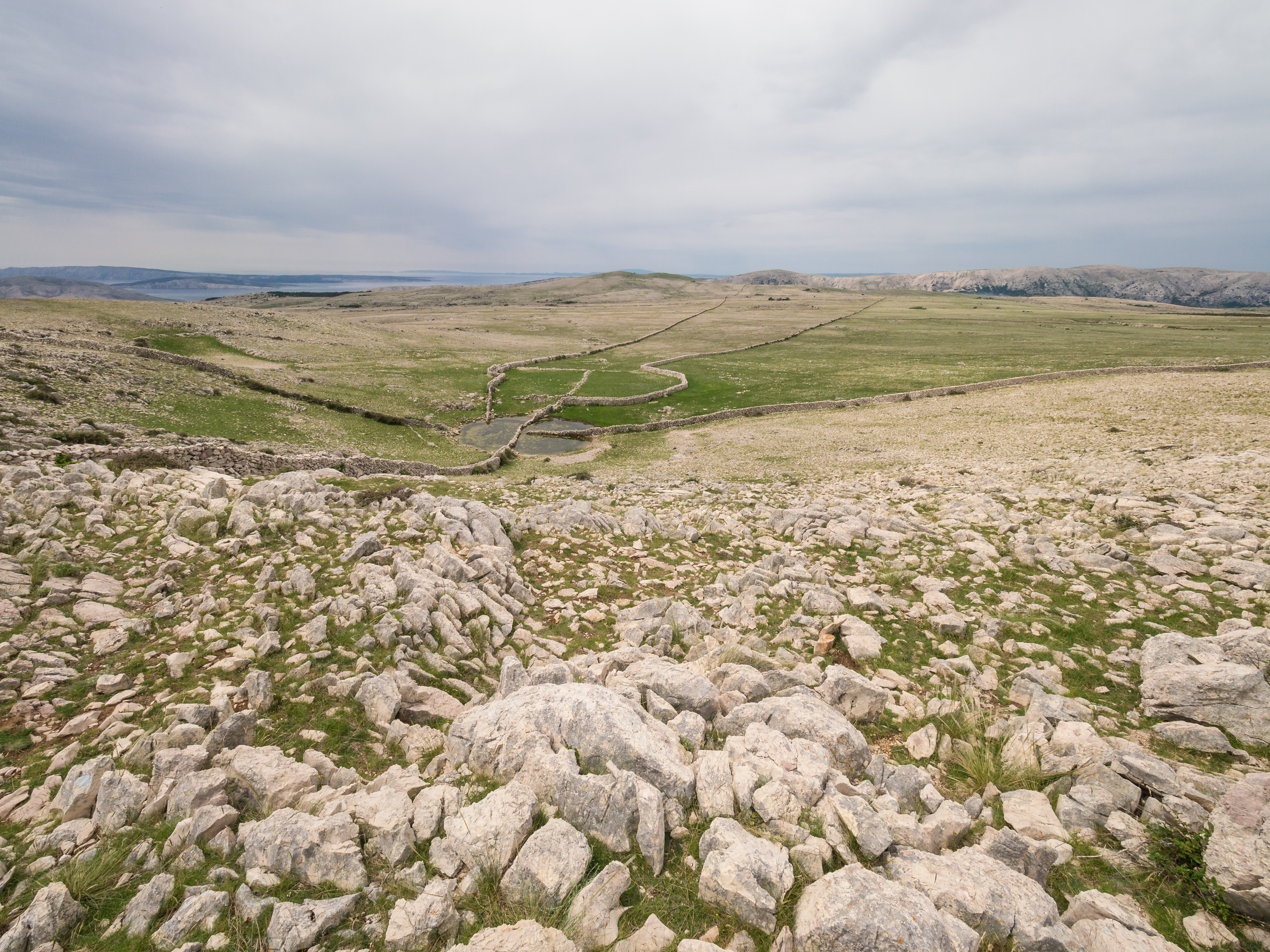 Lokva Diviška nalazi se unutar ornitološkog rezervata Kuntrep.